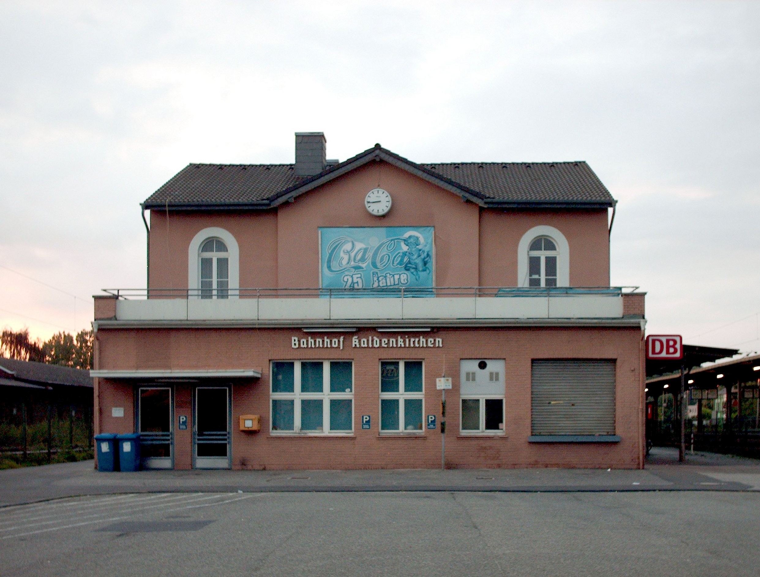 Kaldenkirchen station, Nettetal, Germany check usage